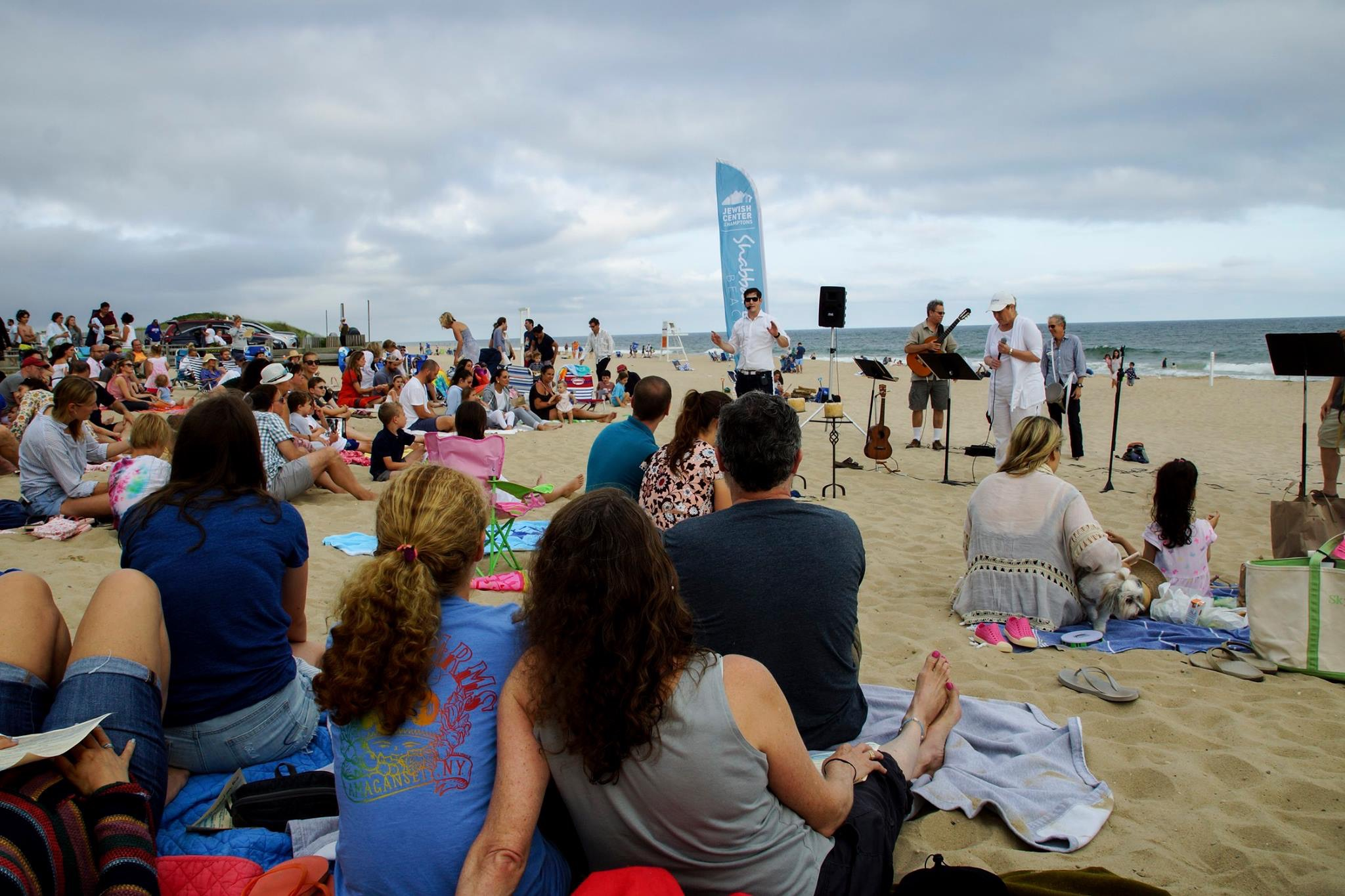 From Day to Labor Day, the Jewish Center of the Hamptons hosts Shabbat on the Beach at Main Beach in East Hampton at 6:00PM